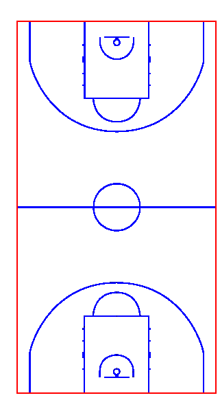 balsketball aut